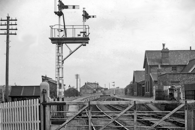 Boosbeck Station. View NE, towards Brotton; ex-NER Middlesbrough - Guisborough - Brotton line. The station closed to passengers on 2/5/60, with the service from Middlesbrough being curtailed to Guisborough, but goods traffic continued through Boosbeck to Brotton until 12/9/64.